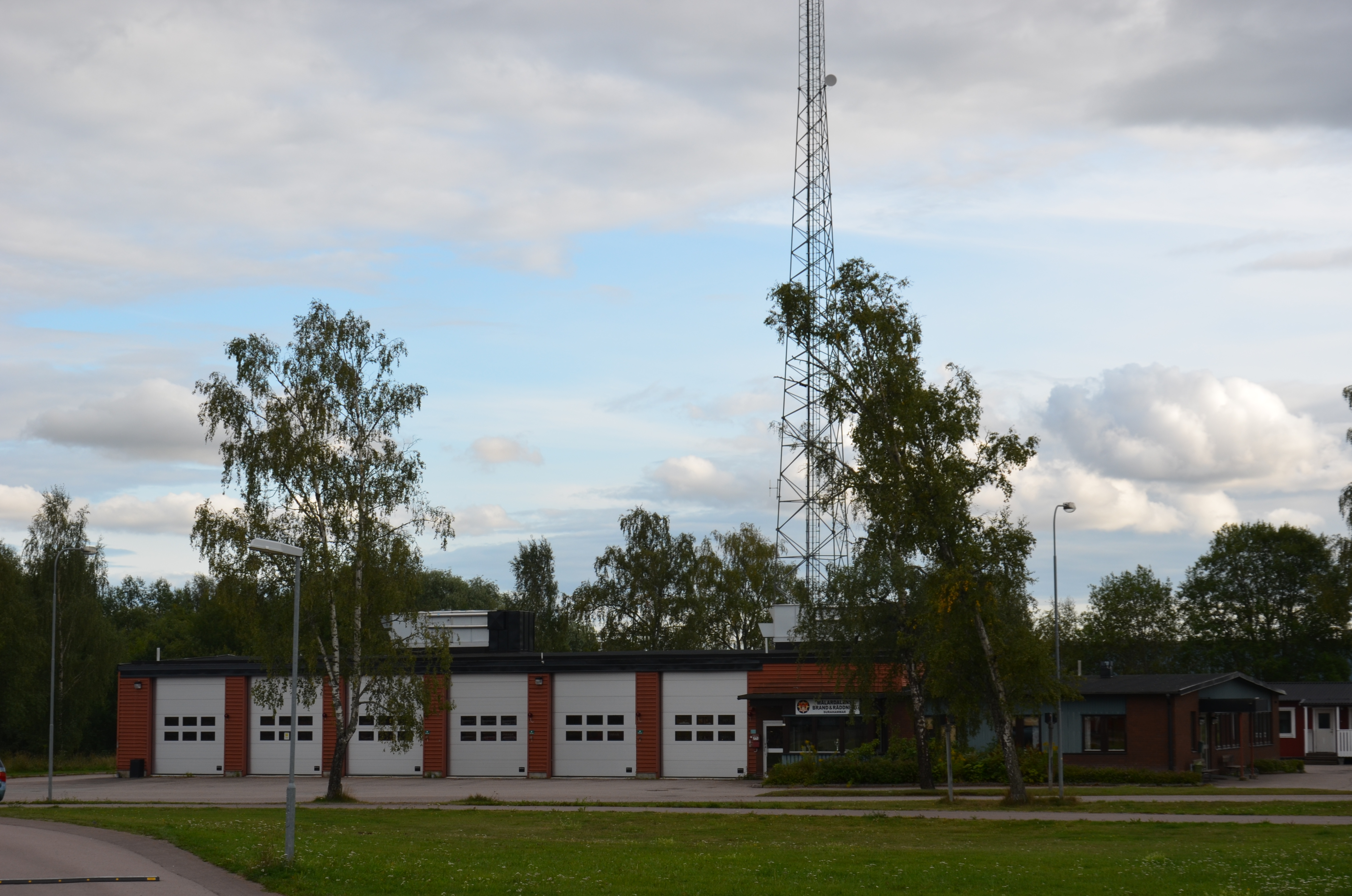 Surahammar Fire Station